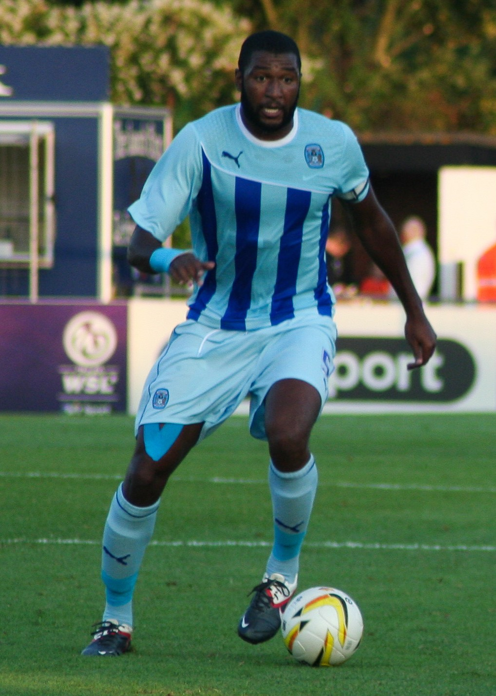 Reda Johnson playing for Coventry City